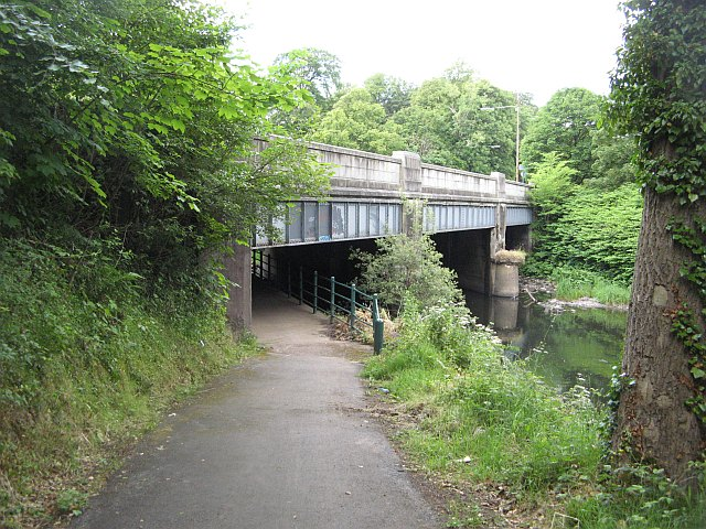 Howford Bridge Crookston Road crossing the White Cart Water. A tight bend feeds the cycle path (National Cycle Route 75 and 7) in from Crookston Road to cross the road via a river side path.